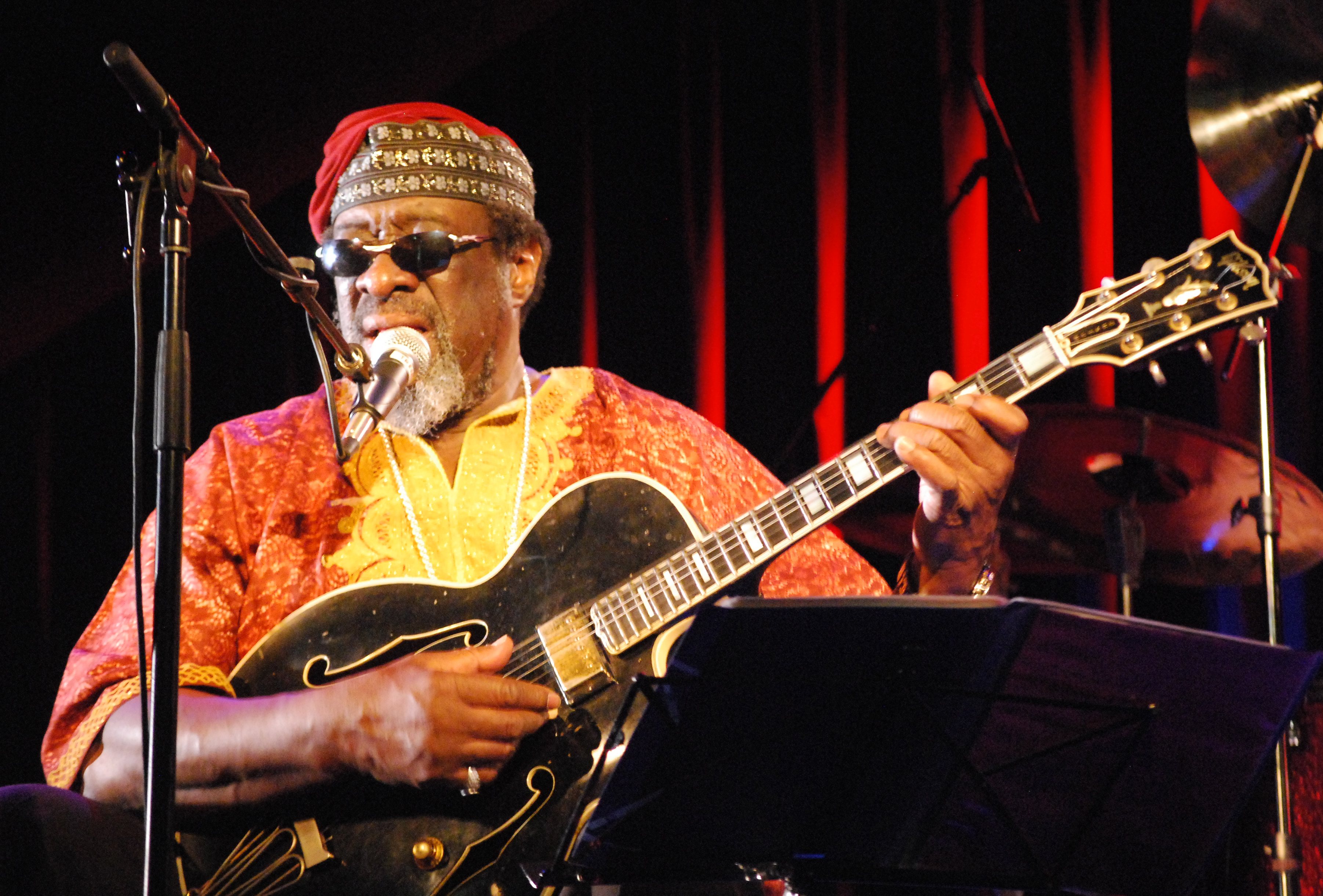 James Blood Ulmer, Innsbruck 2011, with Charles Burnham and Warren Benbow